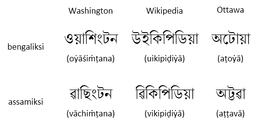 An example of how the [w] sound is written in Bengali and Assamese.